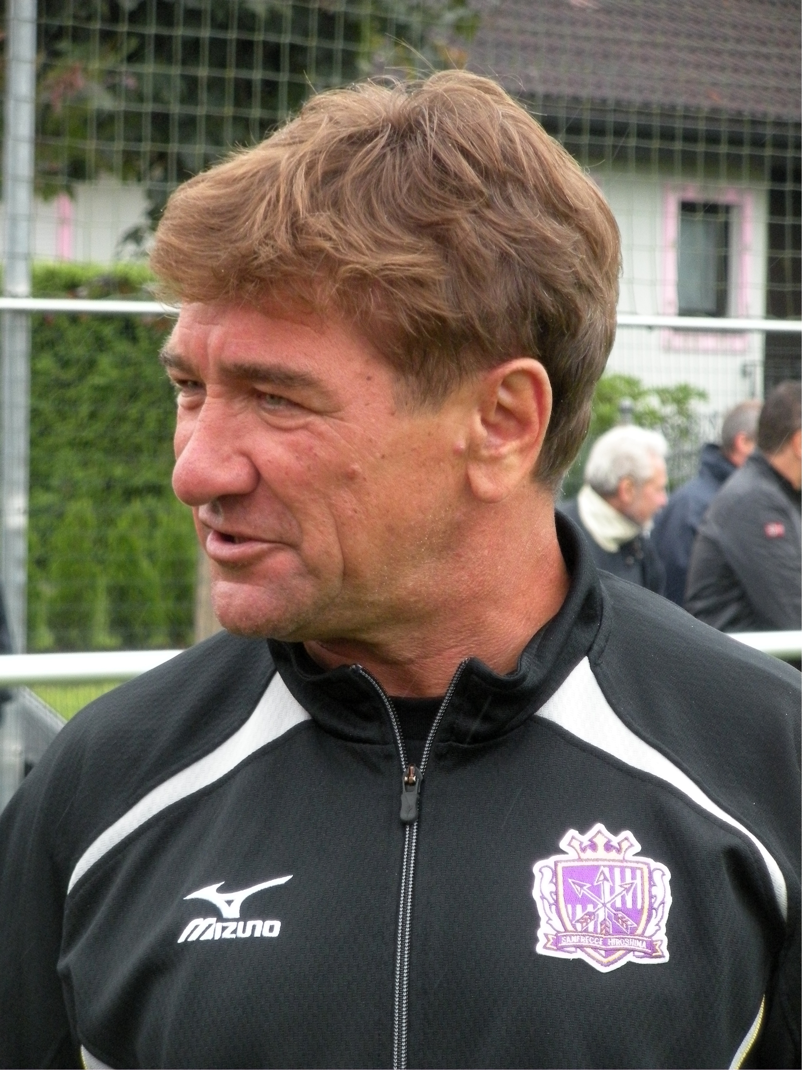 Hiroshima-manager Michael Petrovic after the international pre-season friendly Sanfrecce Hiroshima (Japan) vs Kapfenberger SV from Austria on 20 June 2010 at the football ground of LAC-Linden in Leibnitz (Styria / Austria)